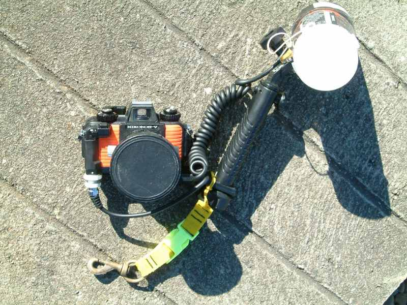 Nikonos V underwater camera